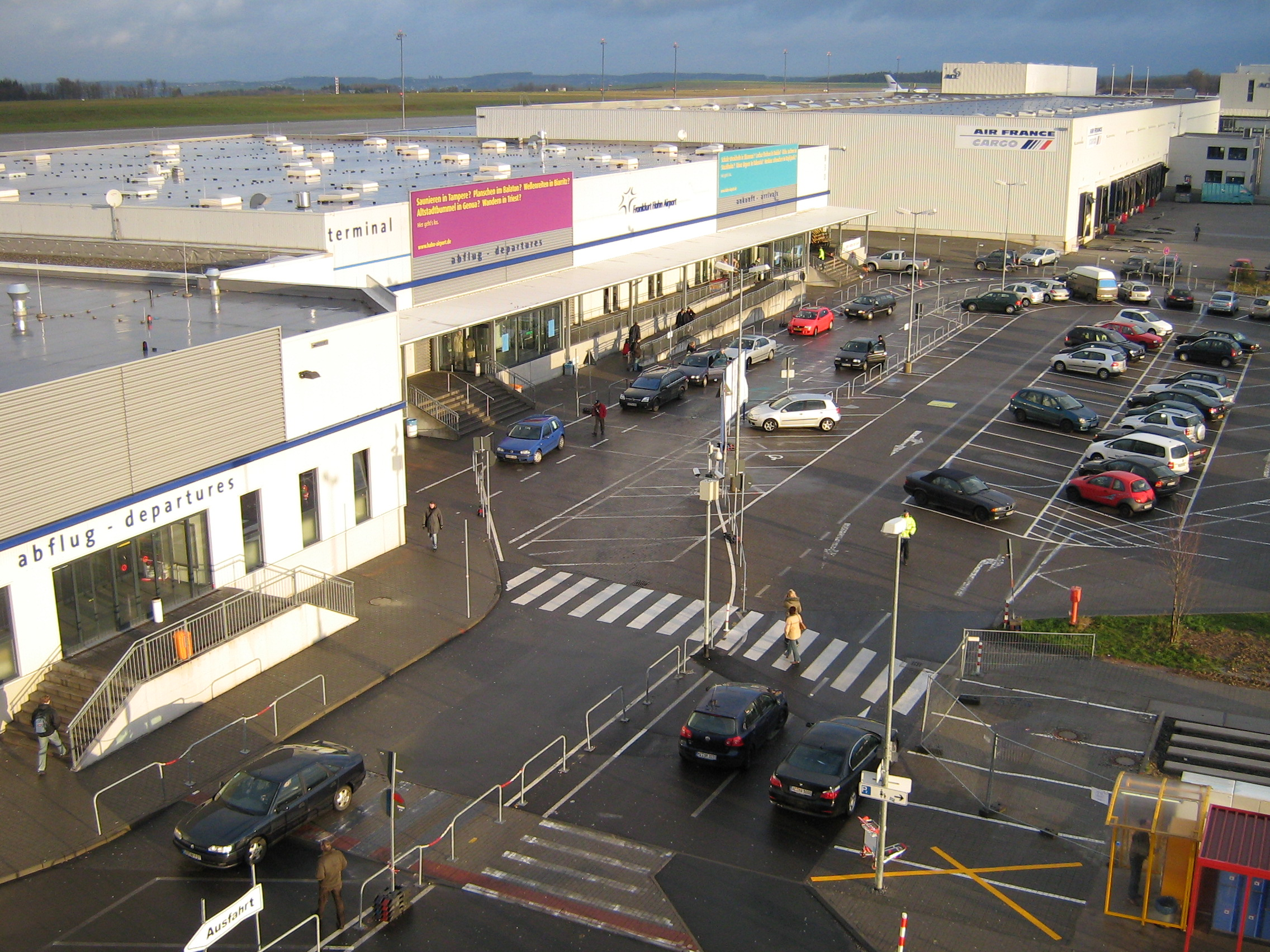 terminal 2 at frankfurt hahn airport